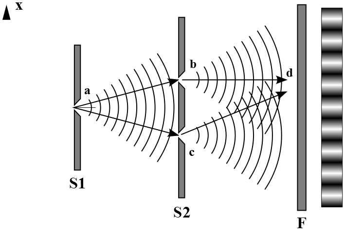 self-made version of double slit experiment. Anyone may use.